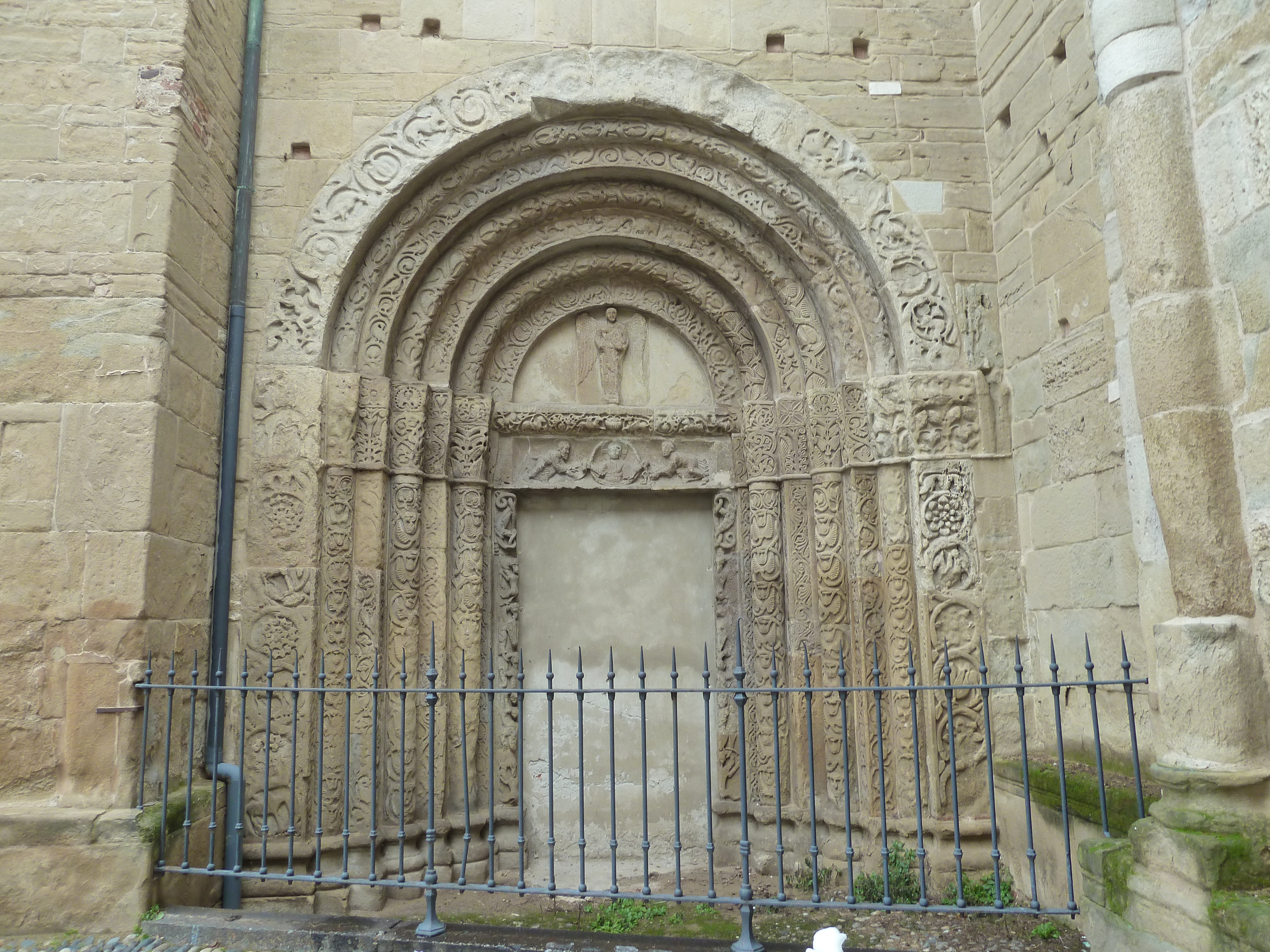 Church of San Michele (Pavia, Lombardy). South side of the nave. Portal (4th bay).